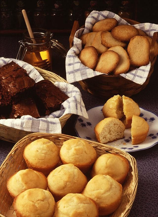 Image title: Baked goods Image from Public domain images website